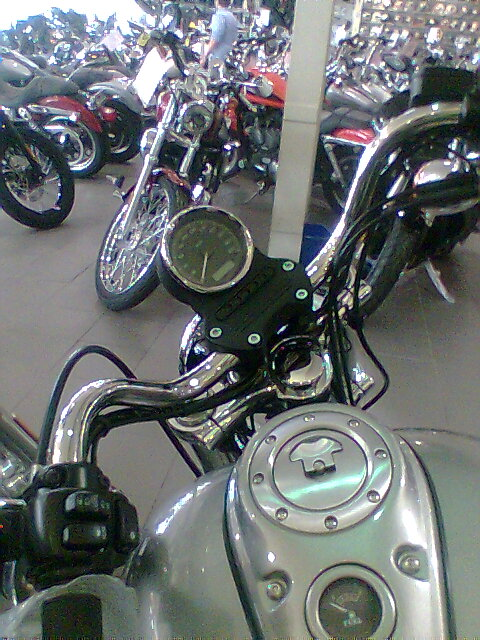 Rider's view of a 2008 Harley-Davidson FXD Superglide.